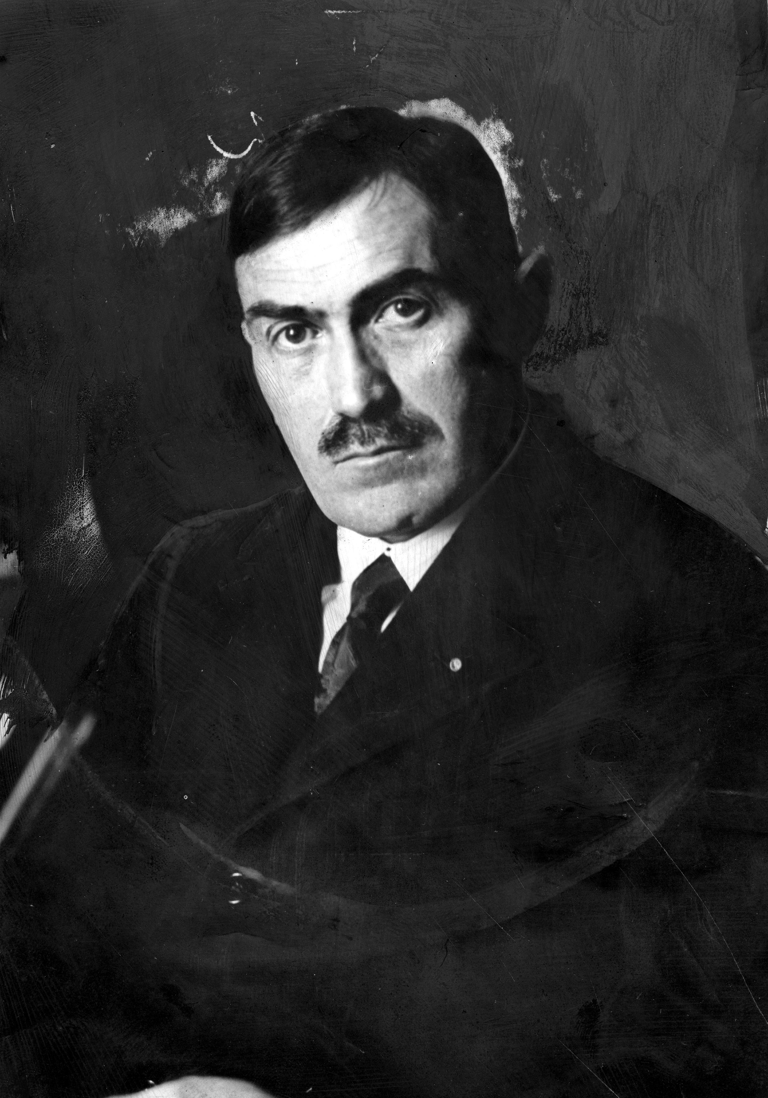 Tadeusz Boy-Żeleński in 1927.